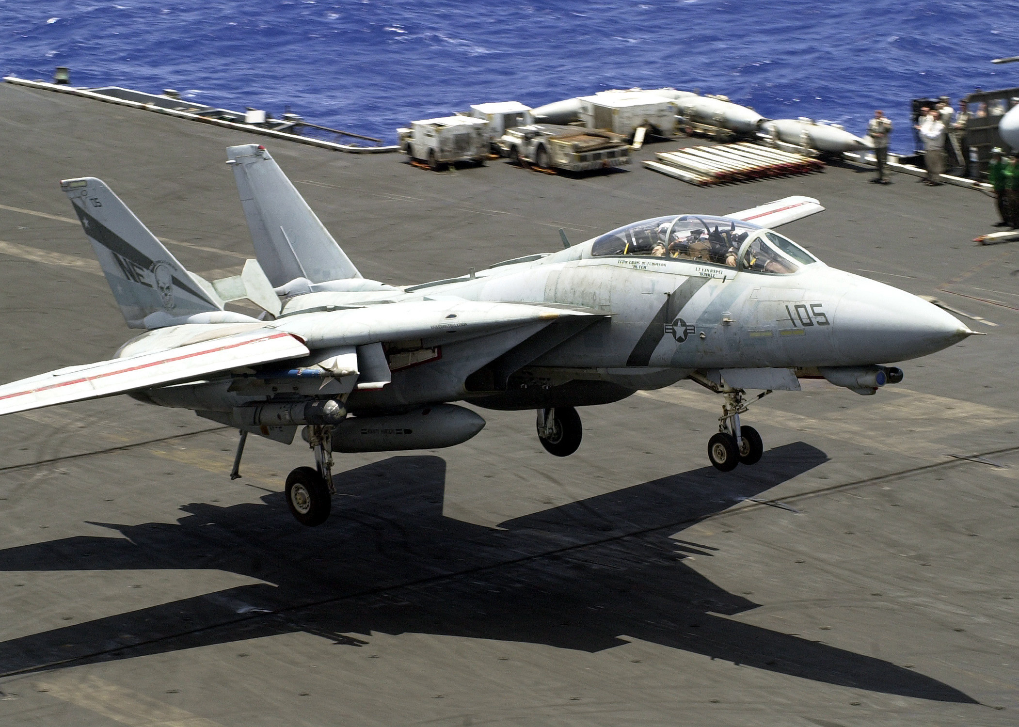 Pacific Ocean (May 18, 2003) - An F-14D Tomcat assigned to the "Bounty Hunters" of Fighter Squadron Two (VF-2) comes in for a landing aboard the aircraft carrier USS Constellation (CV-64) after completing Aerial Combat Maneuvers (ACM) training. Constellation and embarked Carrier Air Wing Two (CVW-2) are on a regularly scheduled deployment in support of Operation Iraqi Freedom (OIF), the multinational coalition effort to liberate the Iraqi people, eliminate Iraq's weapons of mass destruction and end the regime of Saddam Hussein. U.S. Navy photo by Photographer's Mate 2nd Class Daniel J. McLain (RELEASED)